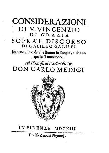 Title page